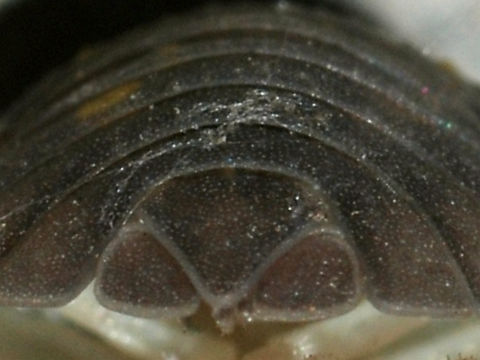 Armadillidium granulatum Brandt, 1833: Detail of telson and uropods.